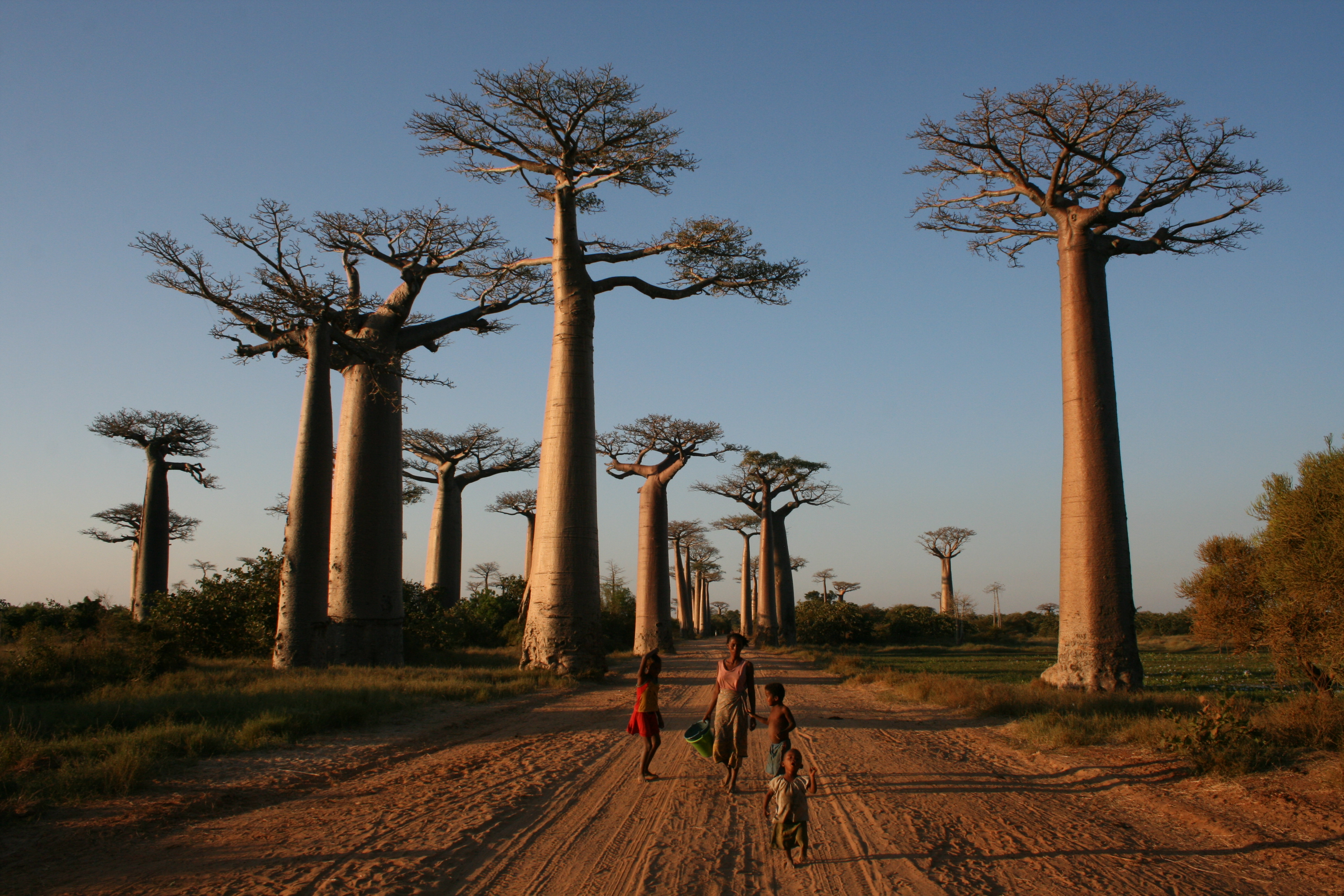 Local people on the Avenue of the Baobabs, Morondava, Madagascar